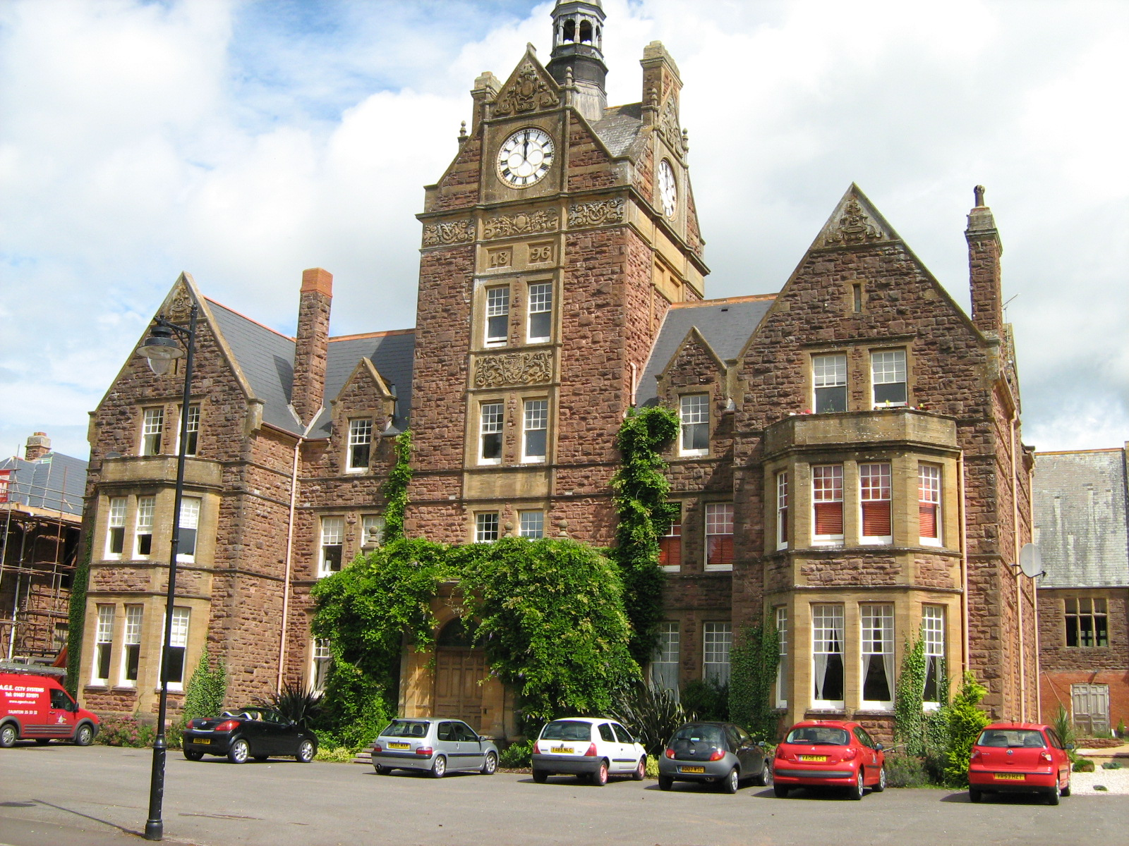 The former Tone Vale mental hospital in Cotford St Luke, Somerset, has now been restored as private housing